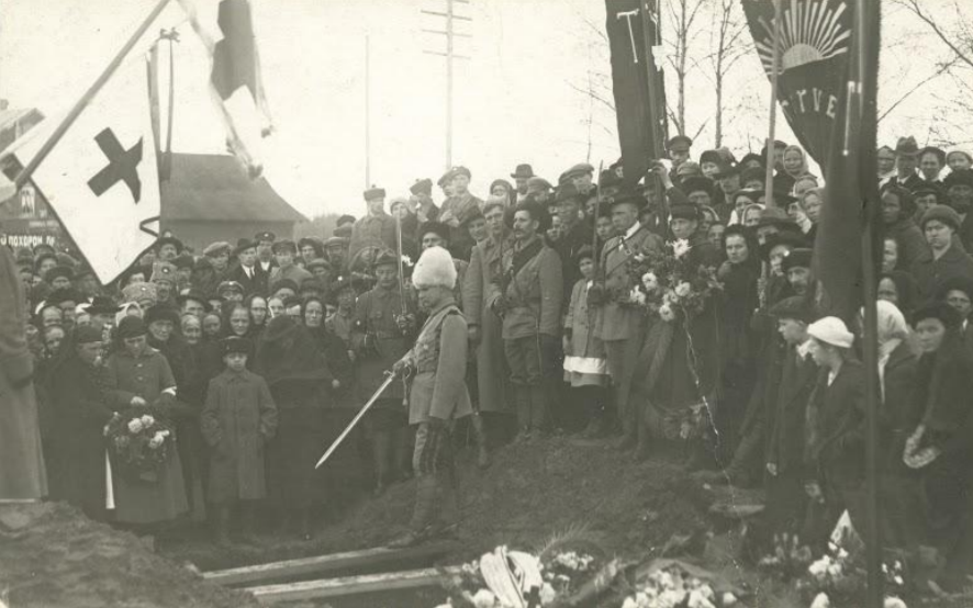 1918 Finnish Civil War Red Guard Funeral in Terijoki. Heikki Kaljunen with a white fur hat.